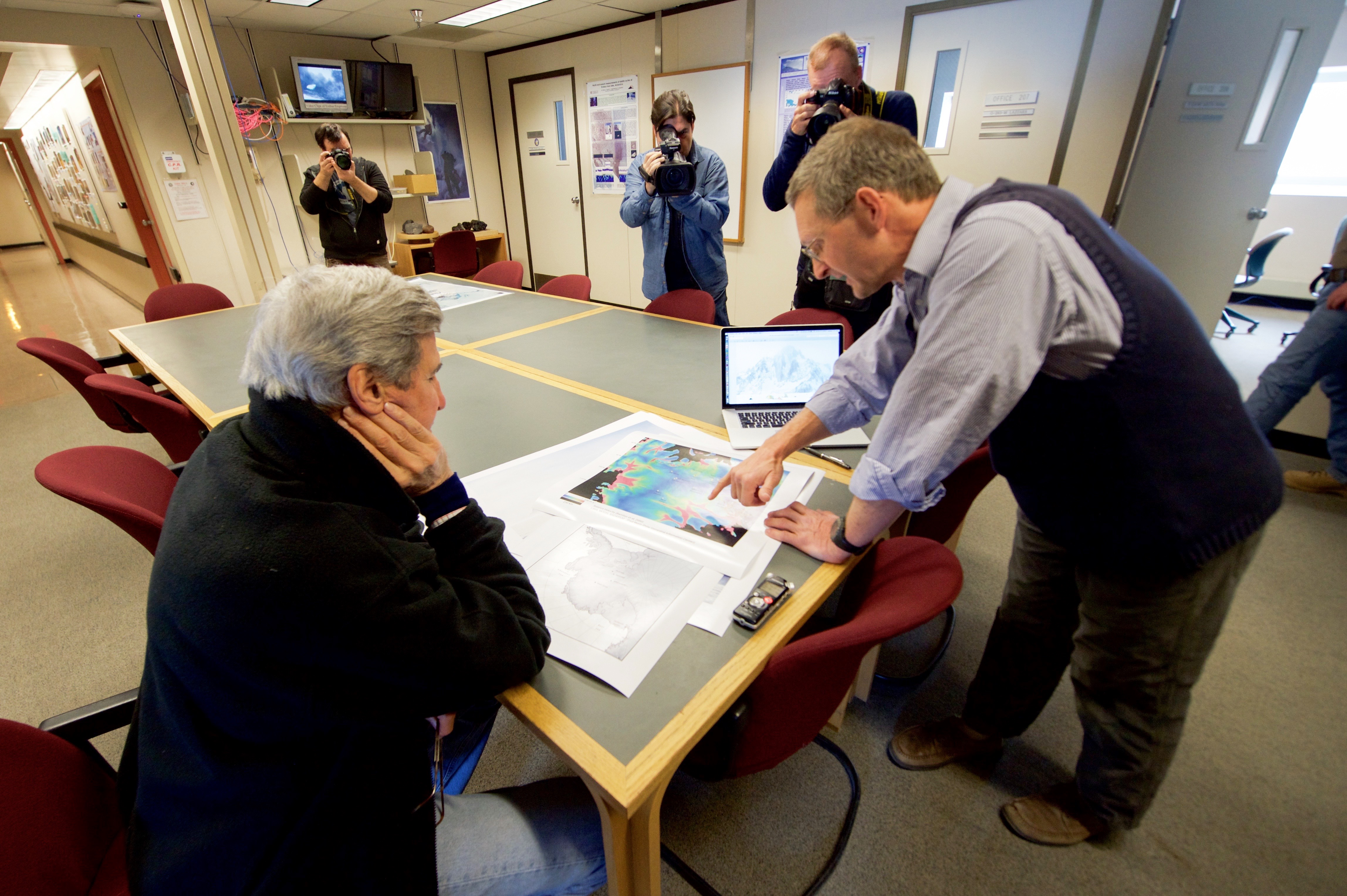 A scientist shows U.S. Secretary of State John Kerry a map of areas of concern in the Western Antarctic ice shelf as the Secretary toured Crary Labs at McMurdo Station in Antarctica on November 12, 2016, during a visit to U.S. research facilities around Ross Island and the Ross Sea in an effort to learn about the effects of climate change on the Continent. [State Department Photo/ Public Domain]